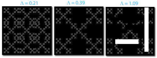 Illustration of lacunarity increasing from left to right, observable as rotational variance increasing from left to right. Generated with benchmark fractal software by author, available free at